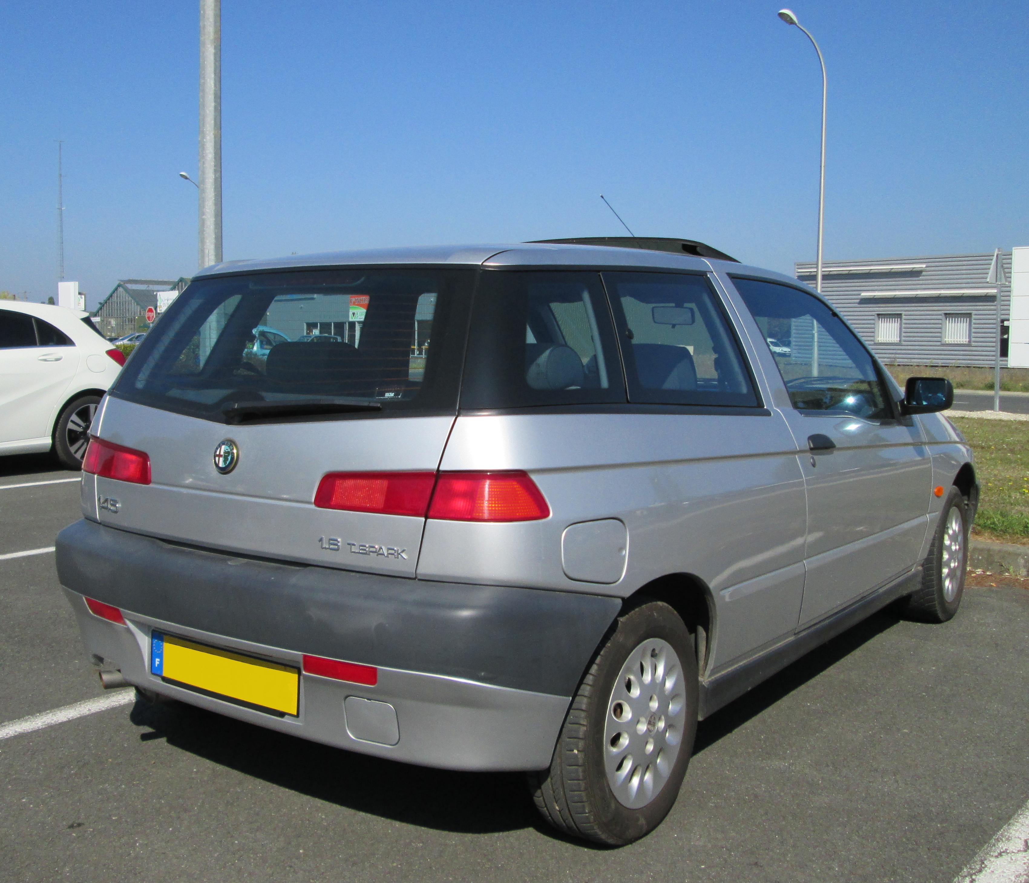 1998 Alfa Romeo 145 Twin Spark 1.6.